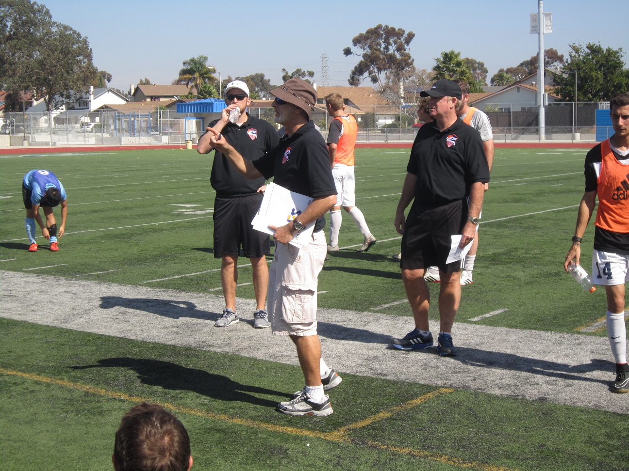 Brilliant coaching staff originally from Turkey, Scotland, and the U.S.A. _San Diego Zest FC